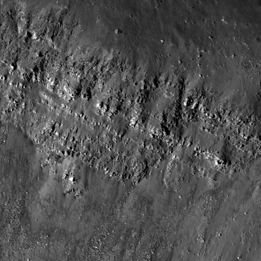 Spectacular example of layering exposed in the wall of Bessel crater (21.8°N, 17.9°E). Image number M135073175R, incidence angle 13°, image is 500 meters across [NASA/GSFC/Arizona State University].